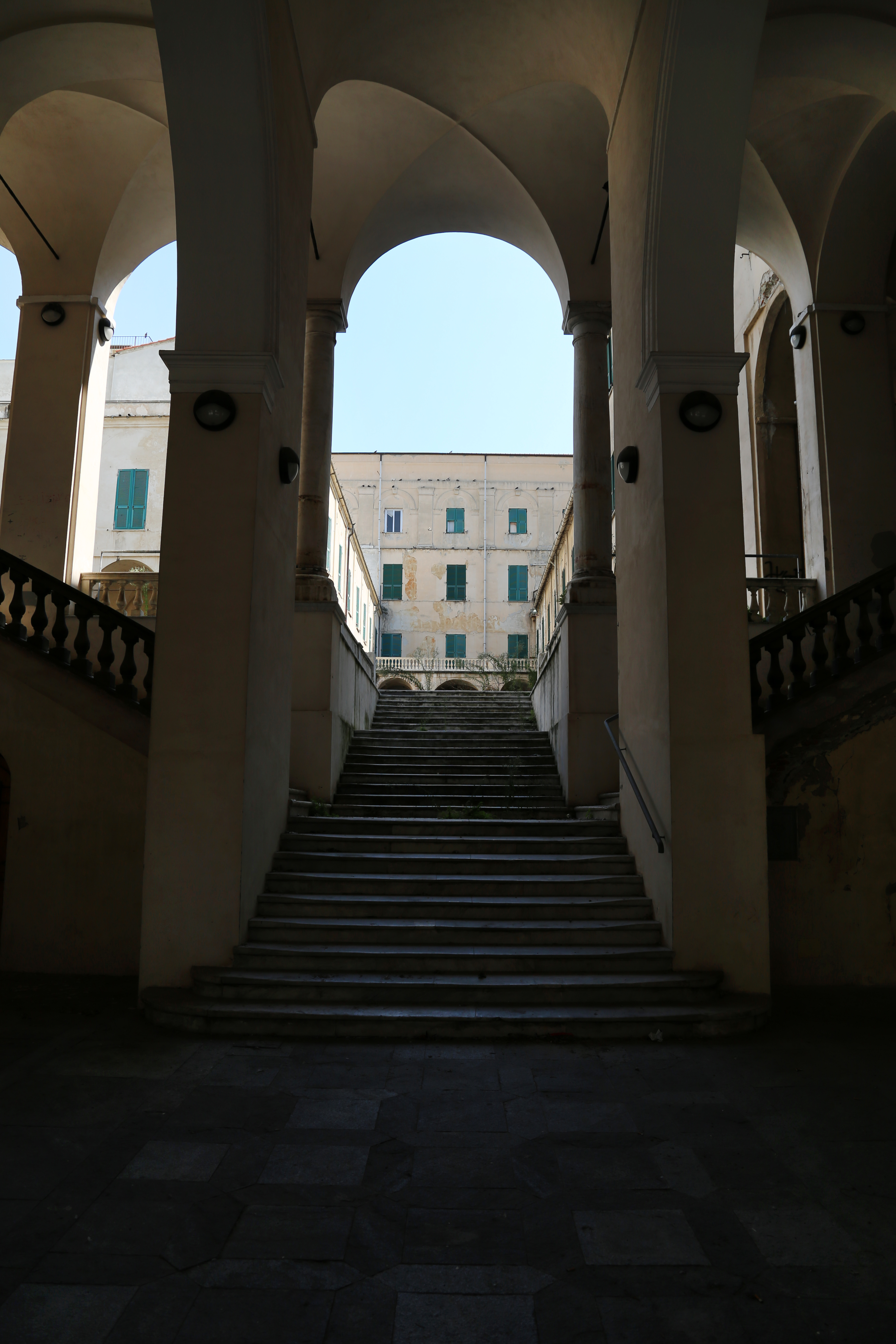 Savona